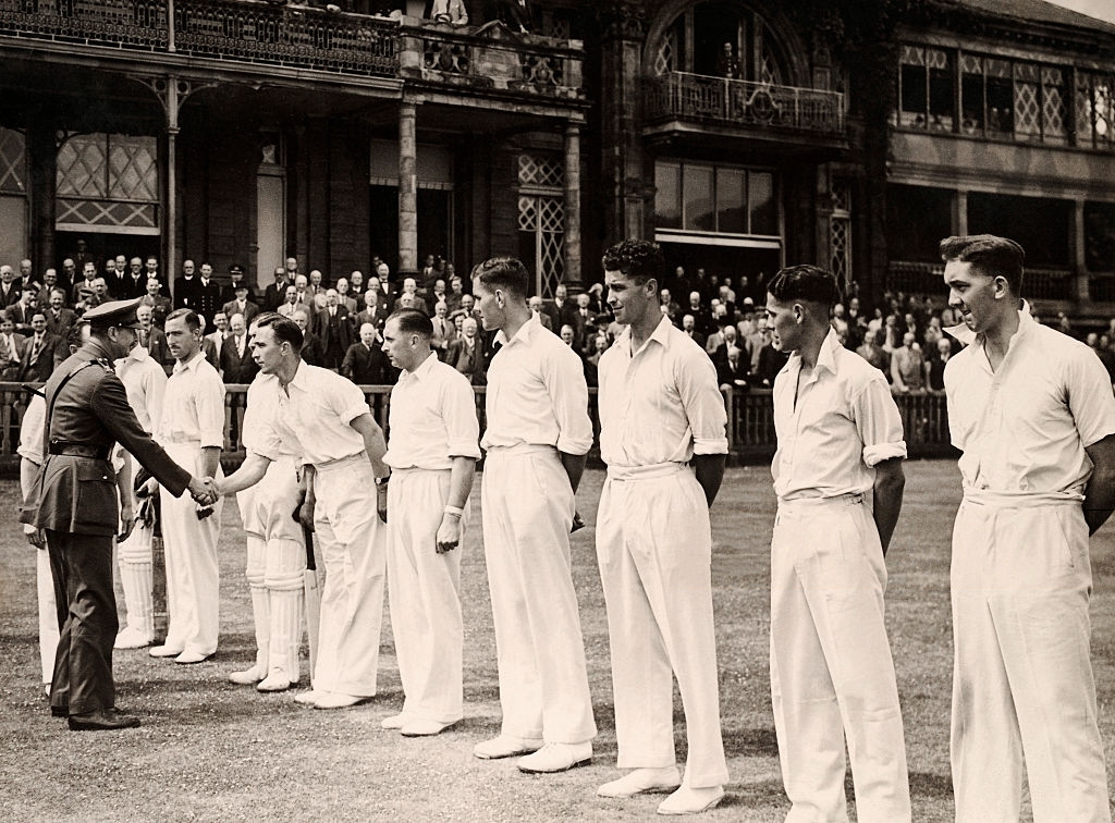 England v The Dominions - Wartime Cricket At Lord's. The Duke of Gloucester is shaking hands with Denis Compton as he meets the England team in front of the pavilion at Lord's cricket ground in London during the fund raising match against The Dominions on 2nd August 1943. The match raised money for the Red Cross Fund and was attended by more than 38,000 people over two days. England won by 8 runs. Left-right: Jack Robertson, Les Ames (hidden), Denis Compton, Harold Gimblett, Alec Bedser, Leslie Compton, Trevor Bailey and Anthony Mallett.